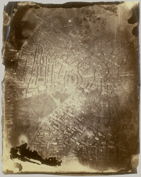 [Boston from a Hot-Air Balloon], October 13, 1860.